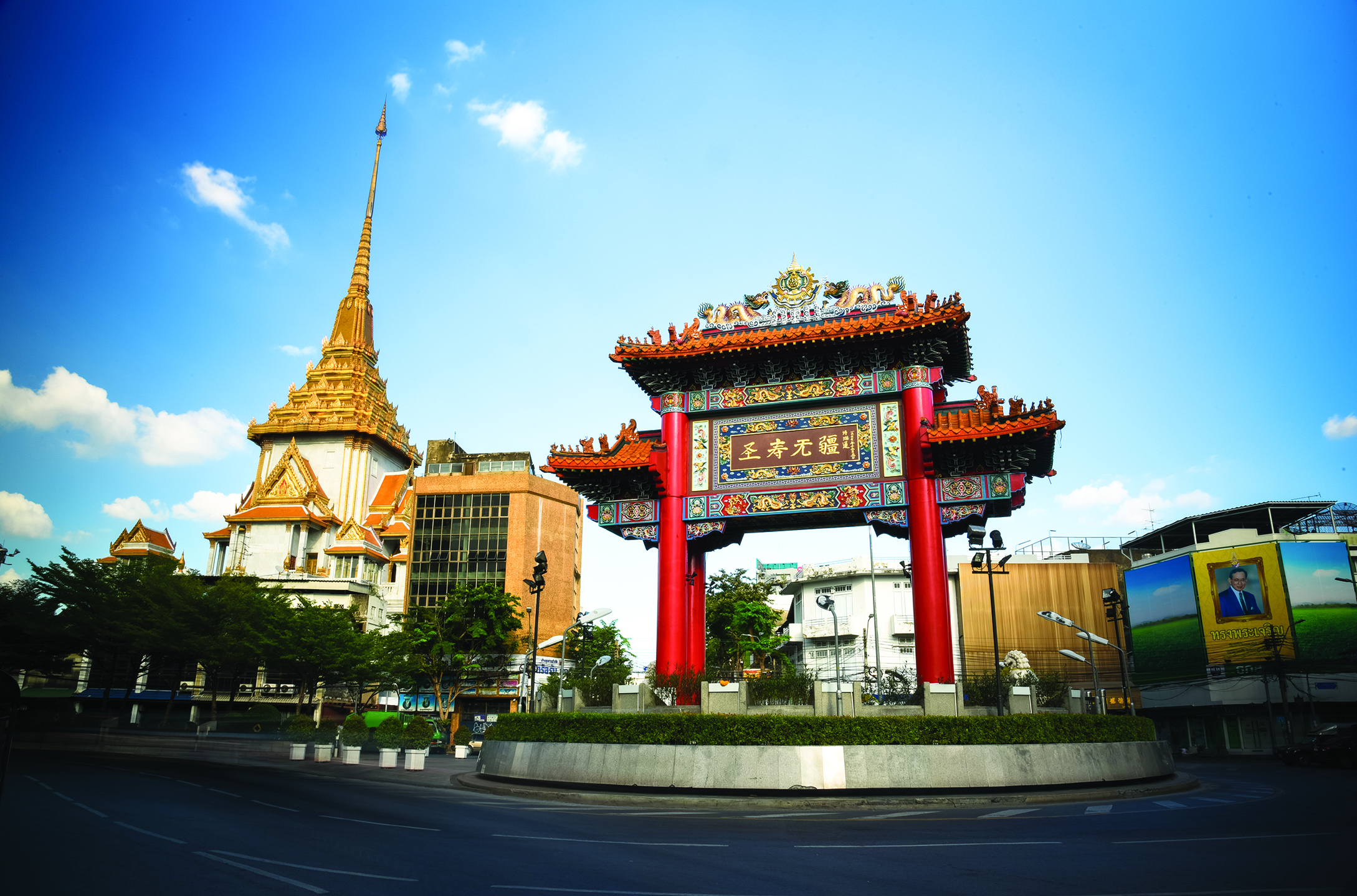 Yaowarat road is one of the first eighteen extended through the heart of the capital city in the reign of King Rama V. It took 8 years (1891-1900) for completion. This road was originally named “Yupparat”, and later changed to “Yaowarat”. With a total distance of approximately one kilometre, this road extends from the canal encircling the city, across from Maha Chai fortress, southwards and meets up with Rachawong road which was constructed in addition to Charoen Krung road straight to a bank of the Chao Phraya River (Rachawong Pier). Initially, this road was home to Chinese immigrants. King Rama V designated the area for a trade hub of commodities imported from China along with nightclubs, and gold shops. The first tallest building ever constructed is also in this area. Yaowarat road was nicknamed the “Dragon Road” where the Royal Jubilee Gate nearby the Odean Circle is the head, the area of old Yaowarat market is the centre, and the very end of the road is the tip of the tail. At present, this area is one of the busiest locations. This area was also labelled the “Chinatown of Thailand”.